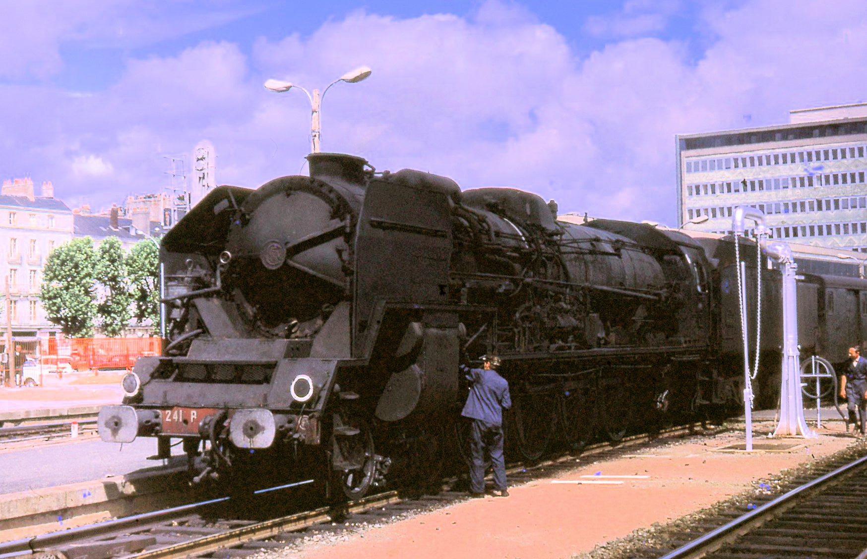 241.P.17 at Nantes station, August 1969, after arriving from Le Mans with an afternoon express.